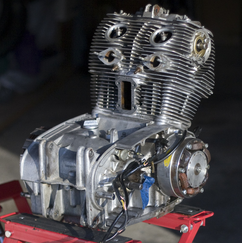 1962 Honda CB77 Superhawk 305 cc twin engine. Engine pulled. Ready for a cleaning and rebuilding. The lower crankcase will be painted with Dupli-Color Ceramic High Heat Engine Enamel (500°), same as the left crankcase and starter. The engine cylinder heads will be bead blasted.